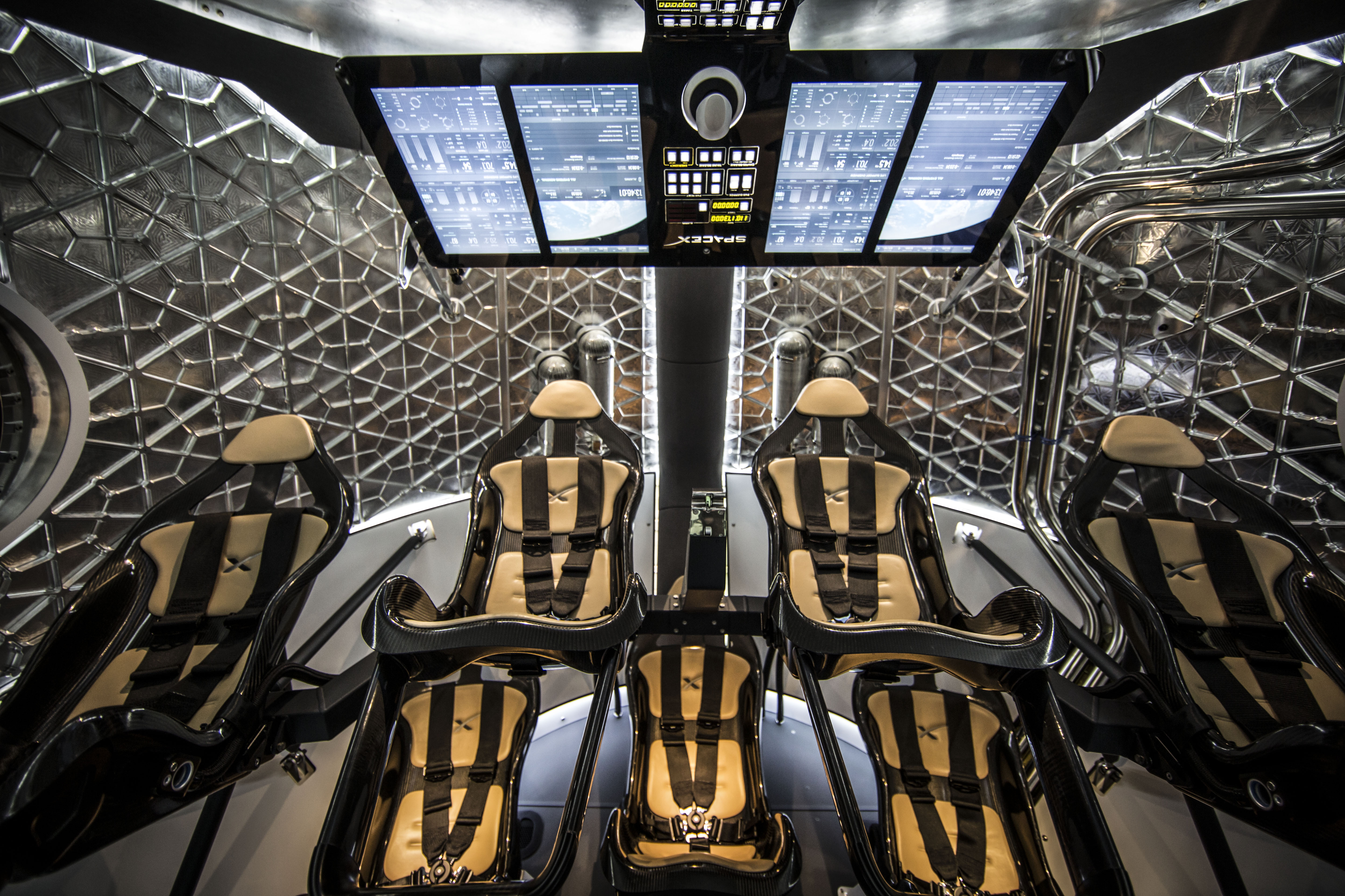 The SpaceX unveil event of Crew Dragon, the next generation spacecraft designed to carry astronauts to Earth orbit and beyond. The spacecraft will be capable of carrying up to seven crewmembers, landing propulsively almost anywhere on Earth, and refueling and flying again for rapid reusability. As a modern, 21st century manned spacecraft, Crew Dragon will revolutionize access to space.